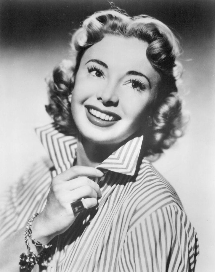 Publicity photo of Audrey Meadows from her appearance on the television program The United States Steel Hour.